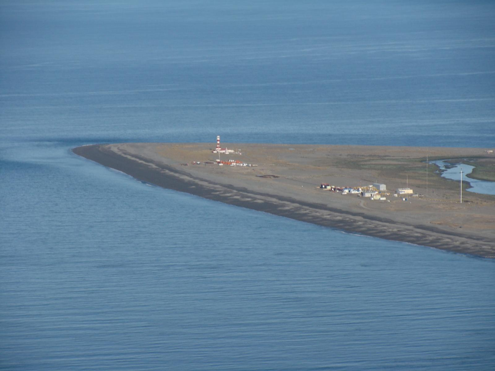 Punta Dungeness, Strait of Magellan, boundary between Argentina and Chile.